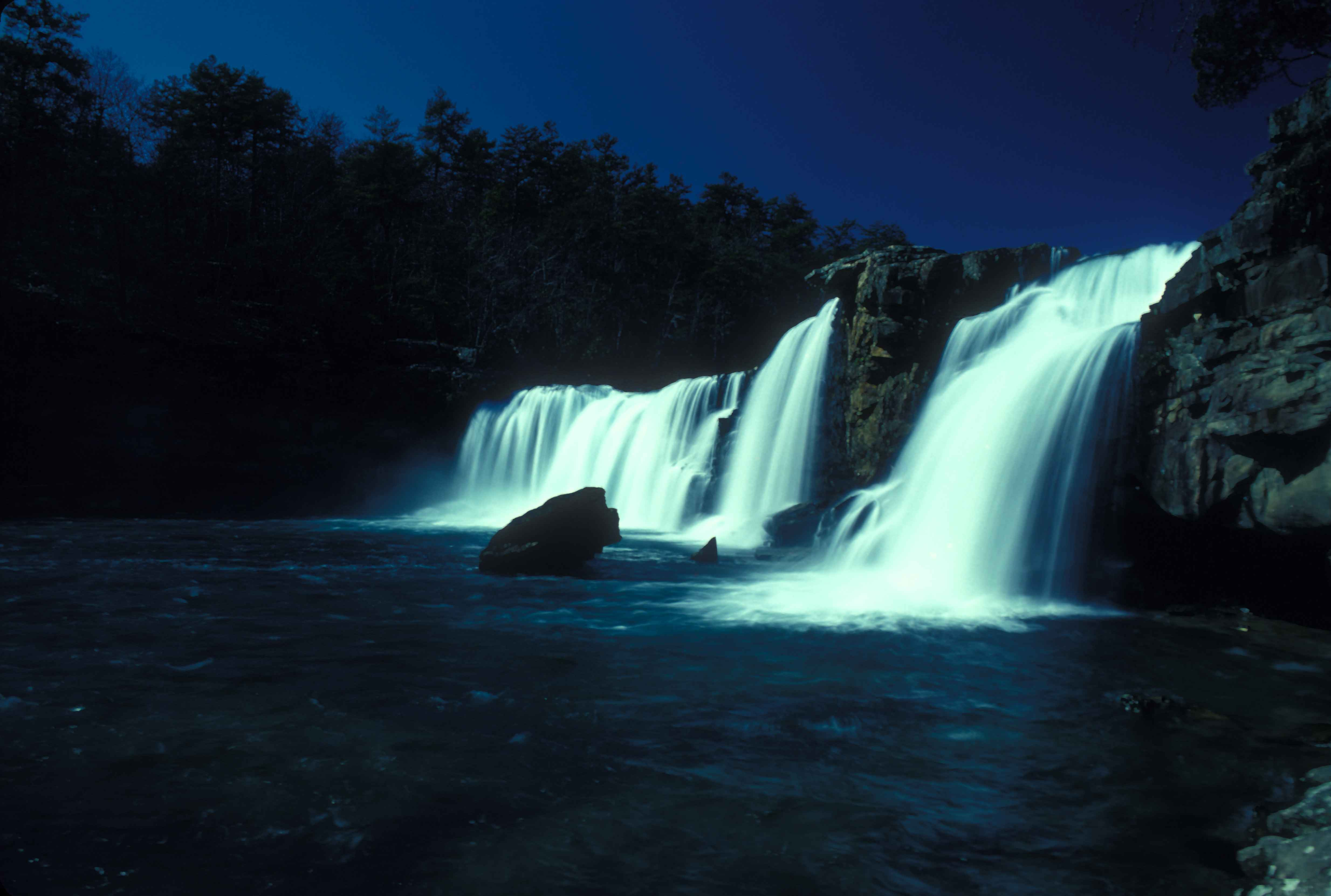 Image title: View of Nocolulu falls from the shore in Godsden Alabama Image from Public domain images website